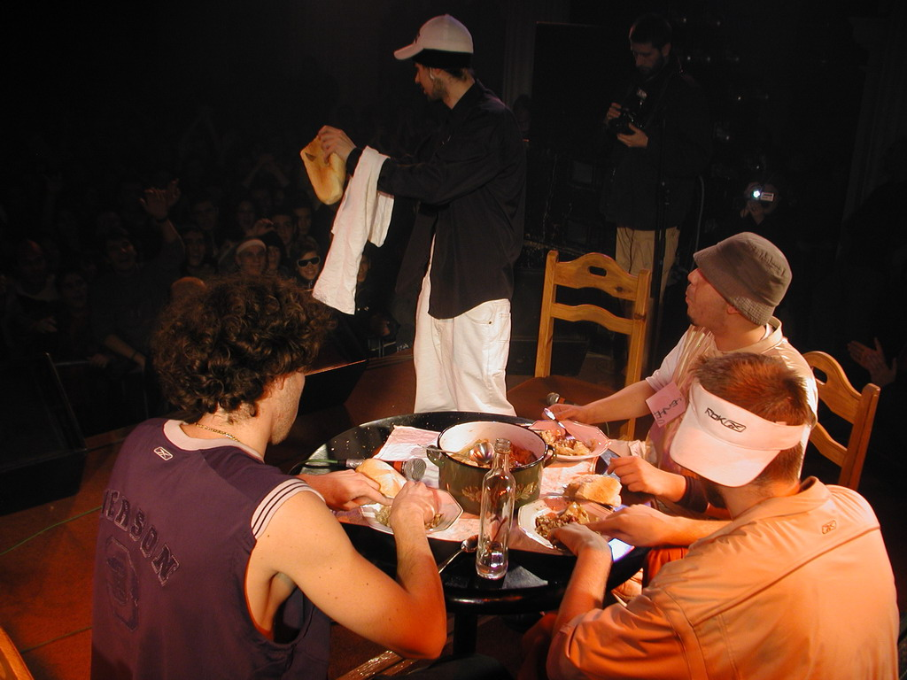 The members of Bad Copy eating Sarma. Taken at the Bad Copy concert in SKC, 2003. Author: Edesimuh 10:20, 31 March 2006 (UTC)